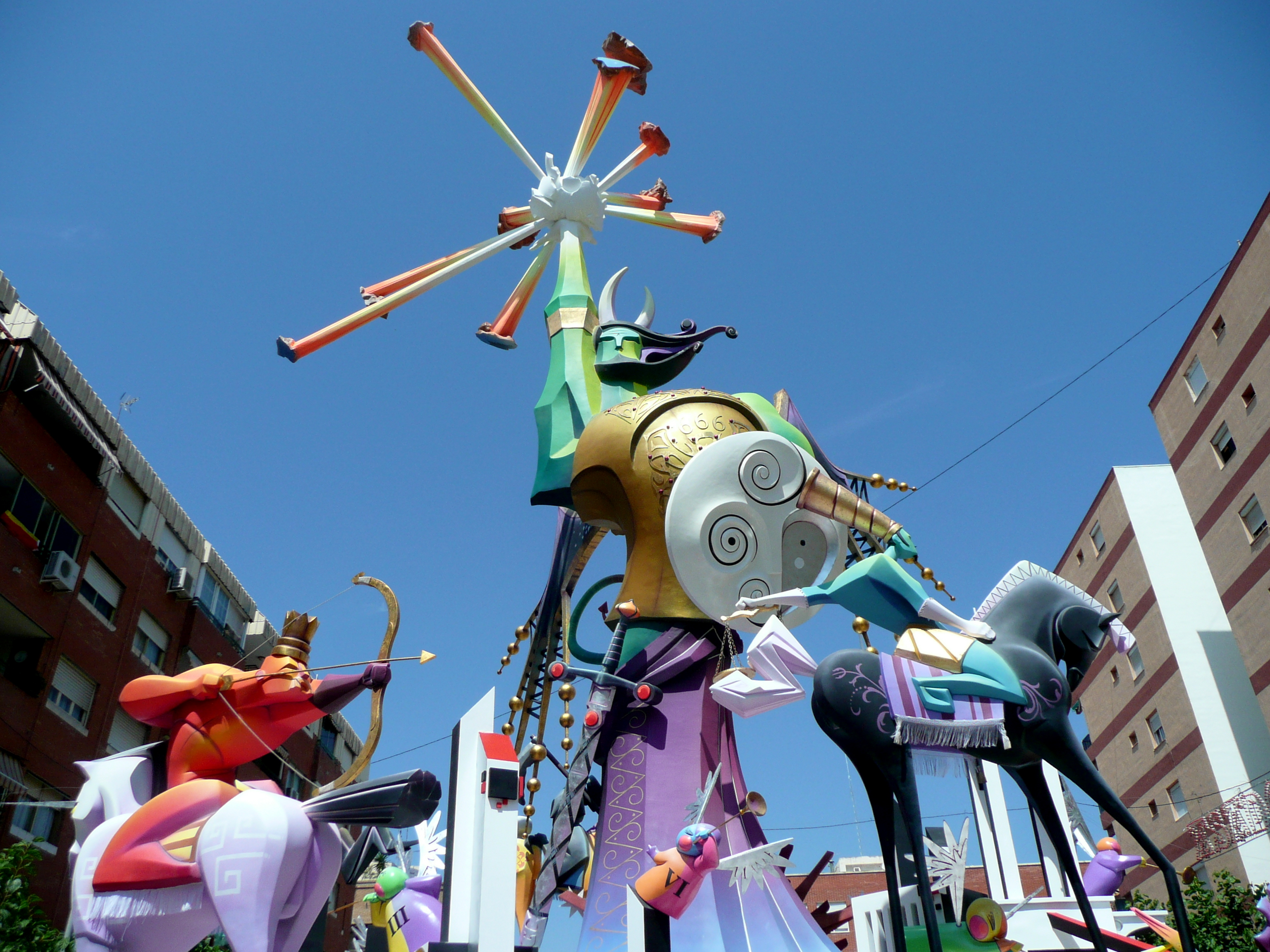 Hogueras 2009 Florida Portazgo Hogueras 2009 set by Fernando Pastor at Flickr